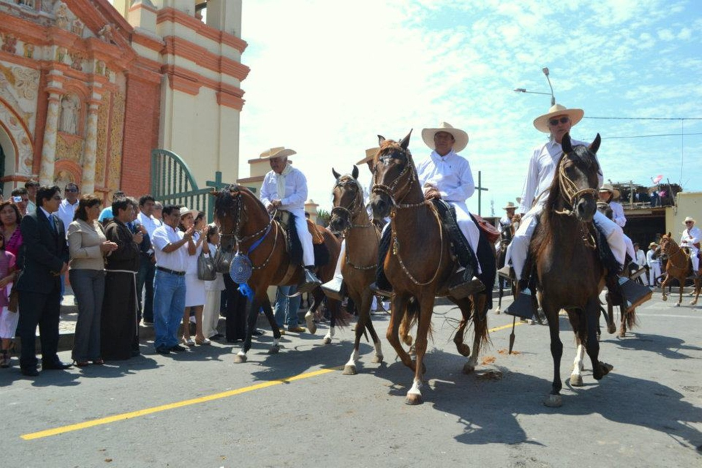 Caballos De Paso En Huaman